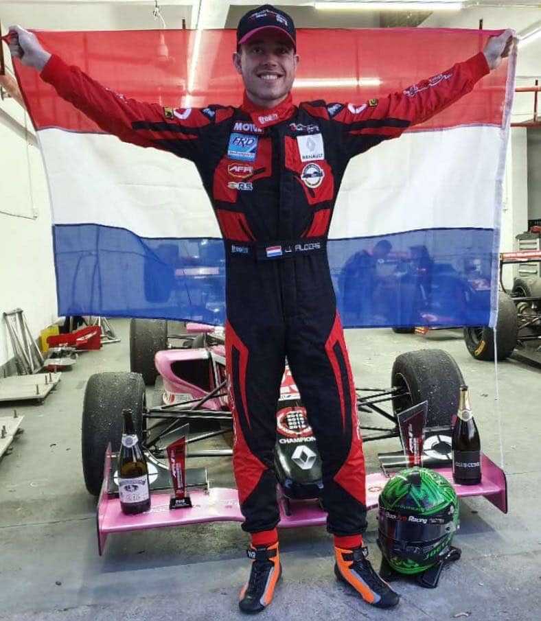 Joey Alders winning in the Asian Formula Renault Series in 2019 with BlackArts Racing at the Zhuhai International Circuit.